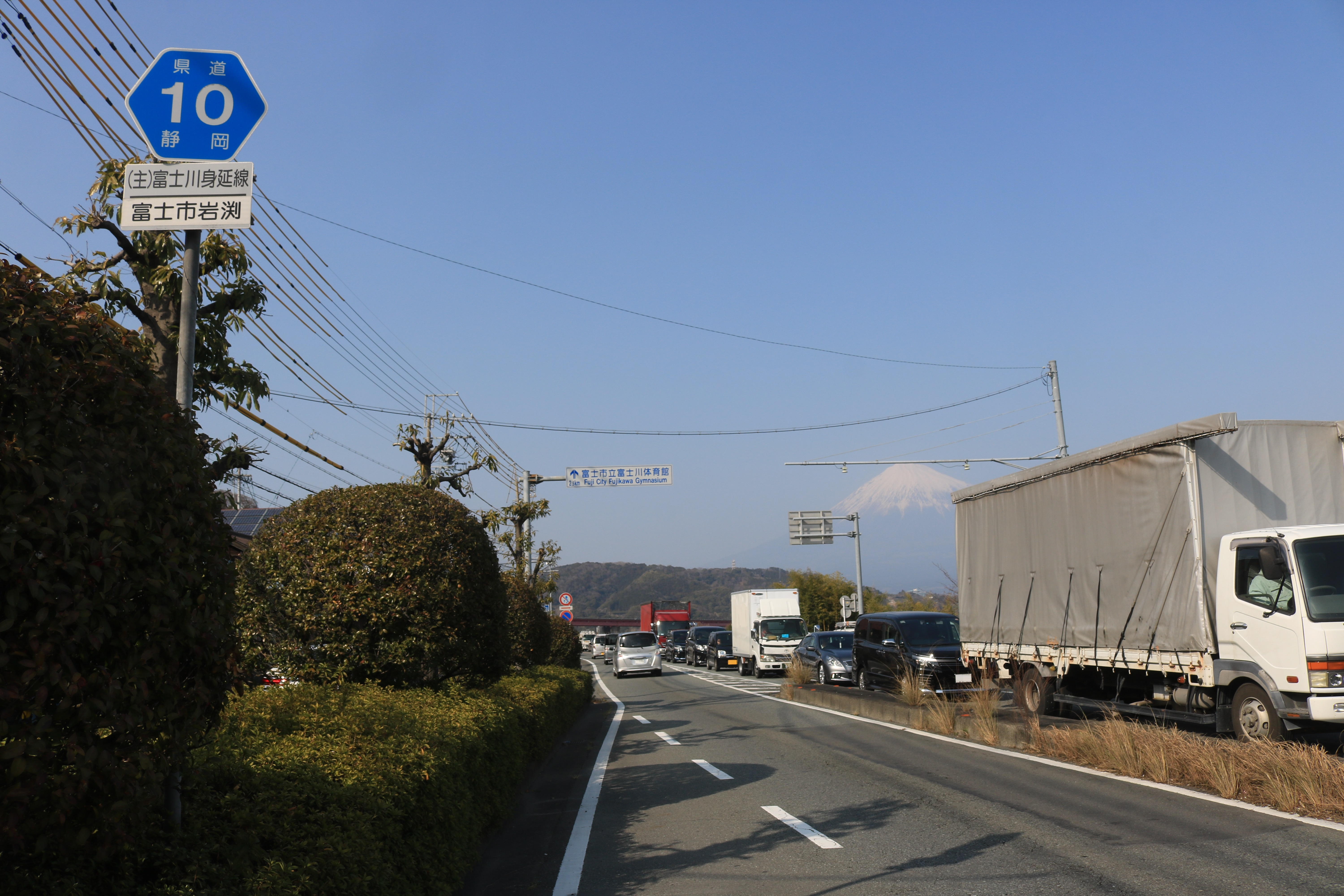 Shizuoka Prefectural Road Route 10 in Iwabuchi, Fuji, Shizuoka Prefecture, Japan.